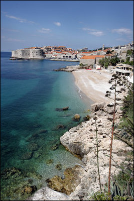 Blue sky and the blue water of the Adriatic Sea frame the rocky coastline and ancient walls of the medieval city of Dubrovnik, Croatia, the last stop on Vice President Dick Cheney's five-day, three-country trip. While in Dubrovnik, the Vice President will participate in meetings with Croatian officials and leaders from Albania and Macedonia to discuss the countries' aspirations to become members of the transatlantic community through integration into NATO and the European Union.